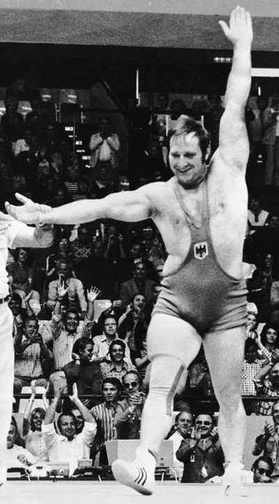 Wrestling at the 1972 Summer Olympics – Men's Greco-Roman +100 kg, Wilfried Dietrich